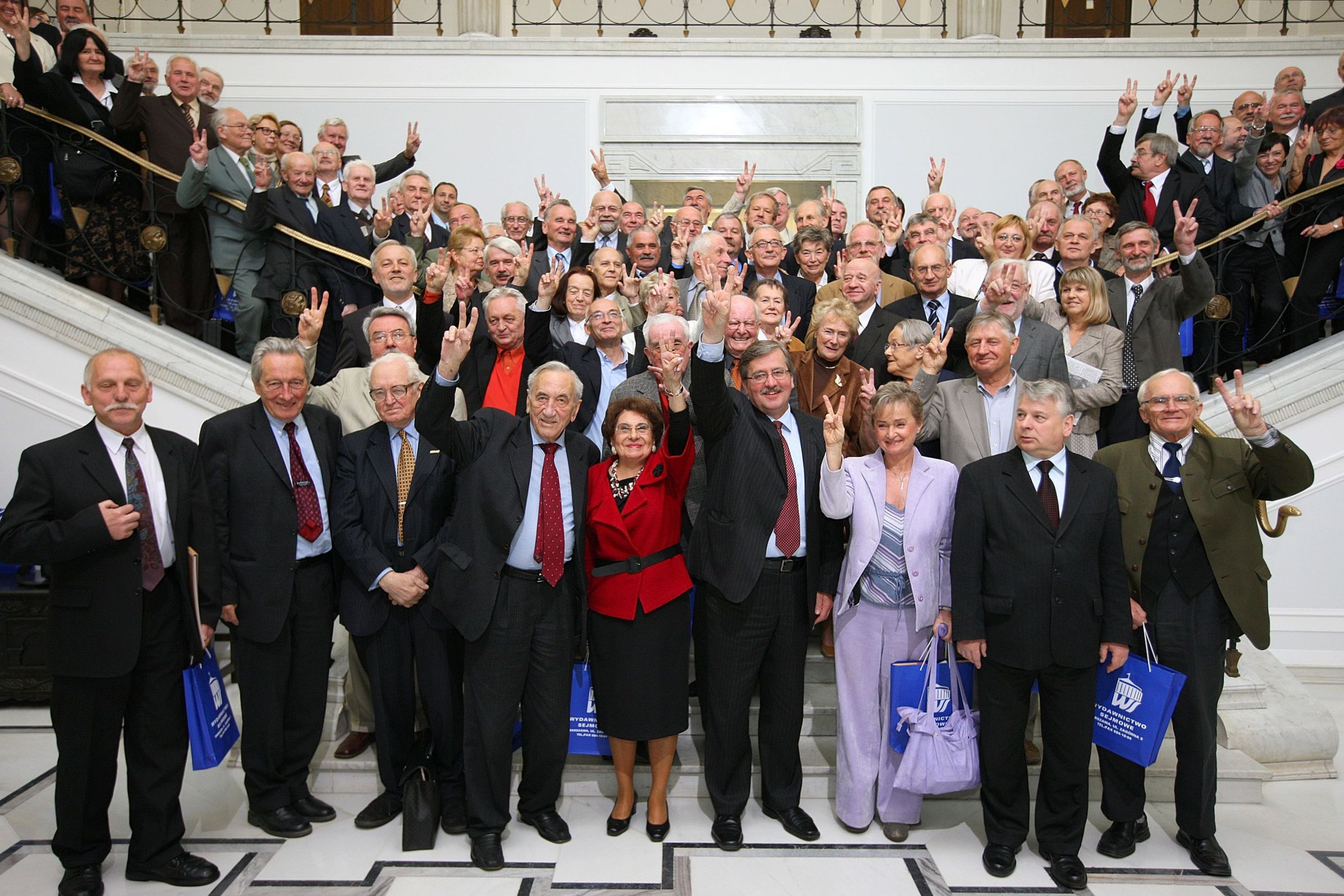 Meeeting of the Civic Parliamentary Causus (OKP) former members in the Polish Sejm